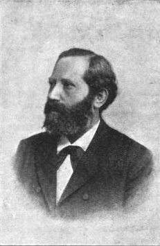 Carl Arendt, German Linguist, Sinologist and Orientalist